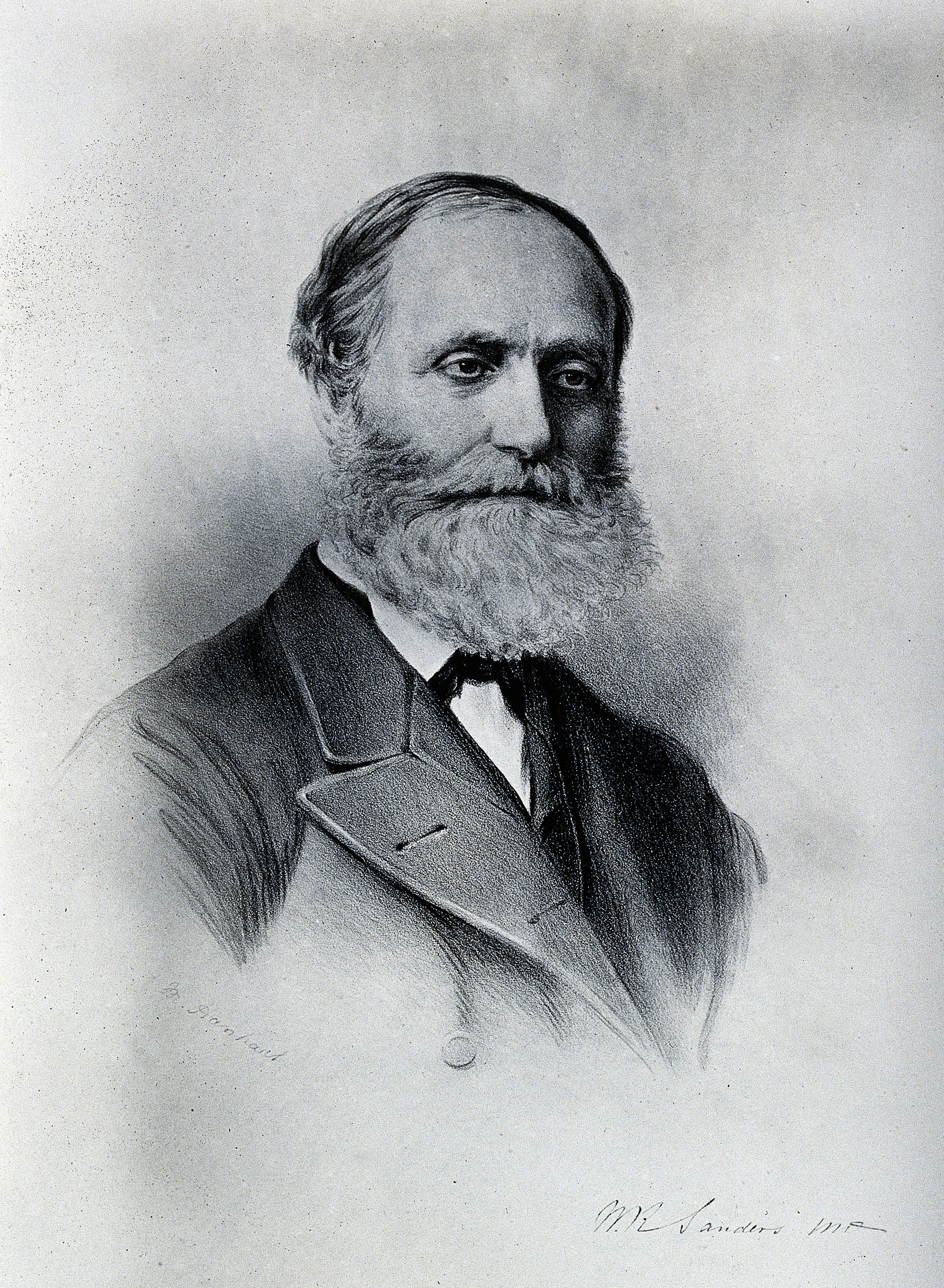 William Rutherford Sanders. Photograph after a lithograph by M. Hanhart. Iconographic Collections Keywords: portrait photographs